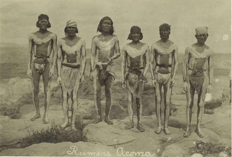 Acoma runners, circa 1909